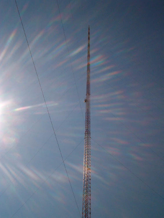 View of KVLY-TV antenna from the ground up.